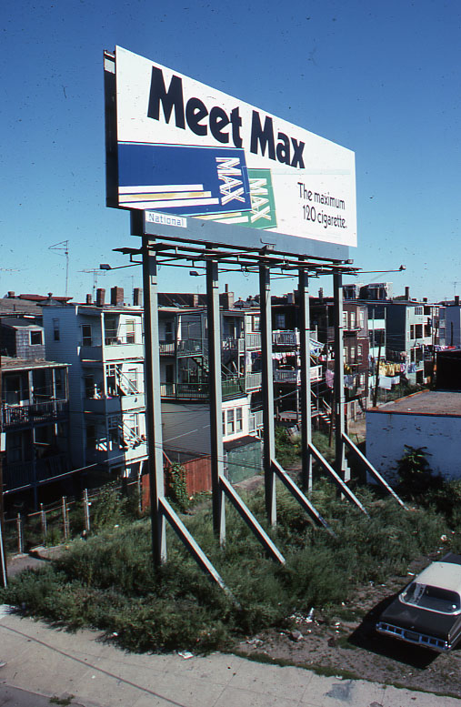 Title: Max cigarettes billboard, East Boston Creator: Peter H. Dreyer Date: 1975 August Source: Collection 9800.007, Peter H. Dreyer slide collection File name: 9800007_172 Photographer: Peter H. Dreyer Rights: Public Domain, Please credit Peter H. Dreyer Citation: Peter H. Dreyer slide collection, Collection #9800.007, City of Boston Archives, Boston